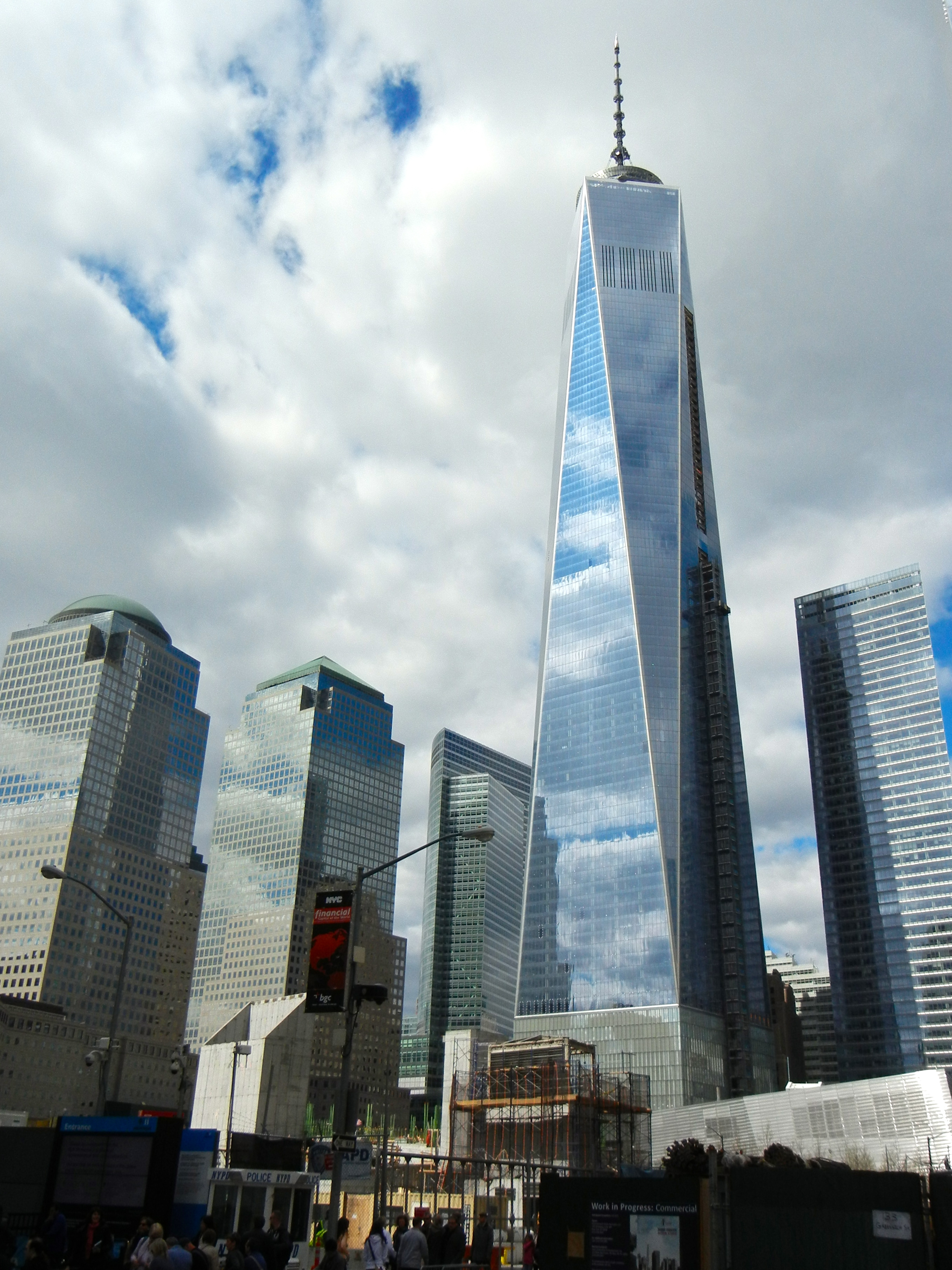 One World Trade Center in NYC from south